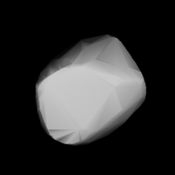 3D convex shape model of 837 Schwarzschilda, computed using light curve inversion techniques. J. Hanuš, J. Ďurech, M. Brož, B. D. Warner (June 2011). "A study of asteroid pole-latitude distribution based on an extended set of shape models derived by the lightcurve inversion method". Astronomy and Astrophysics 530: A134. ISSN 0004-6361. arXiv